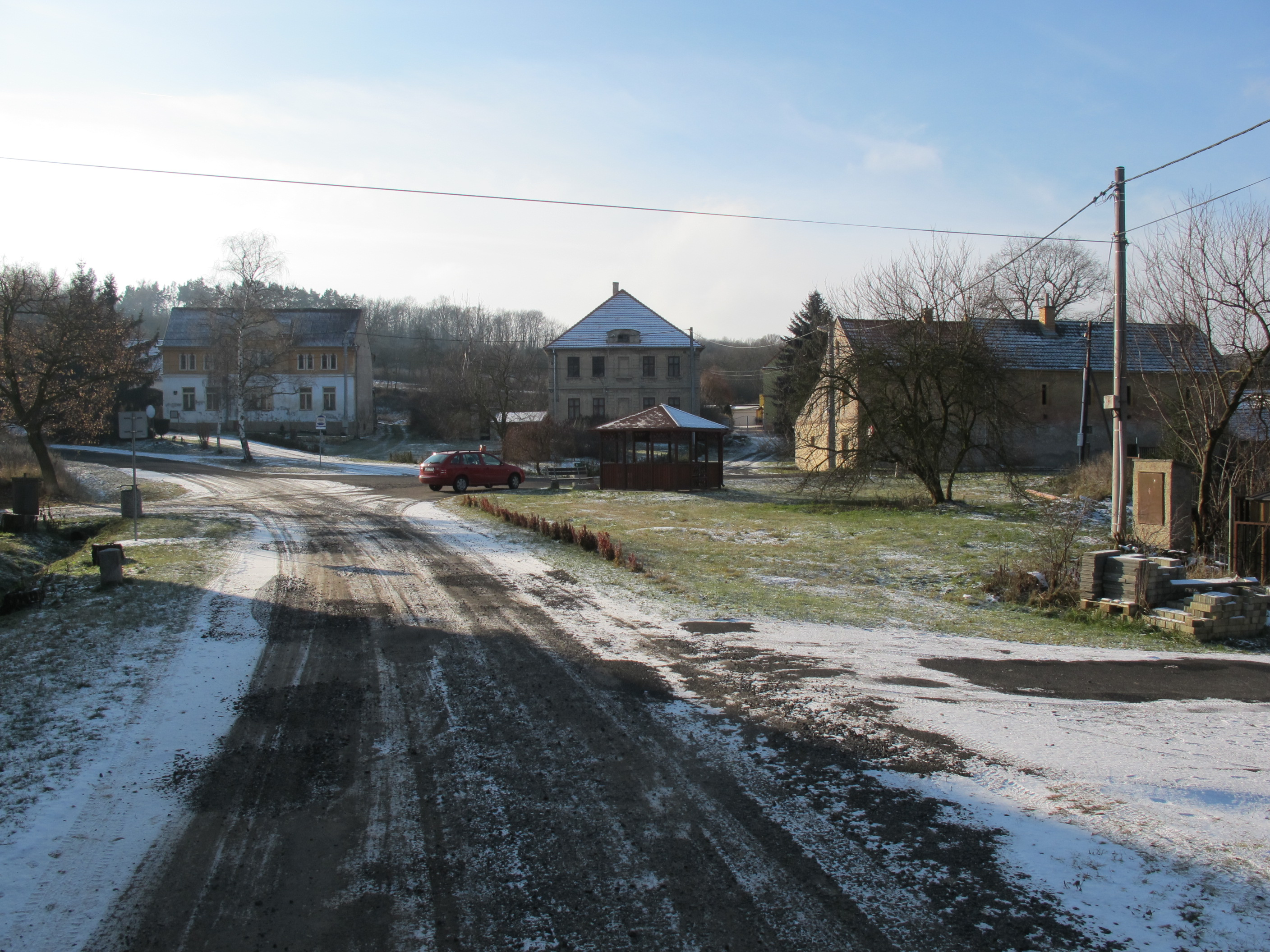 Village square in Tatinná